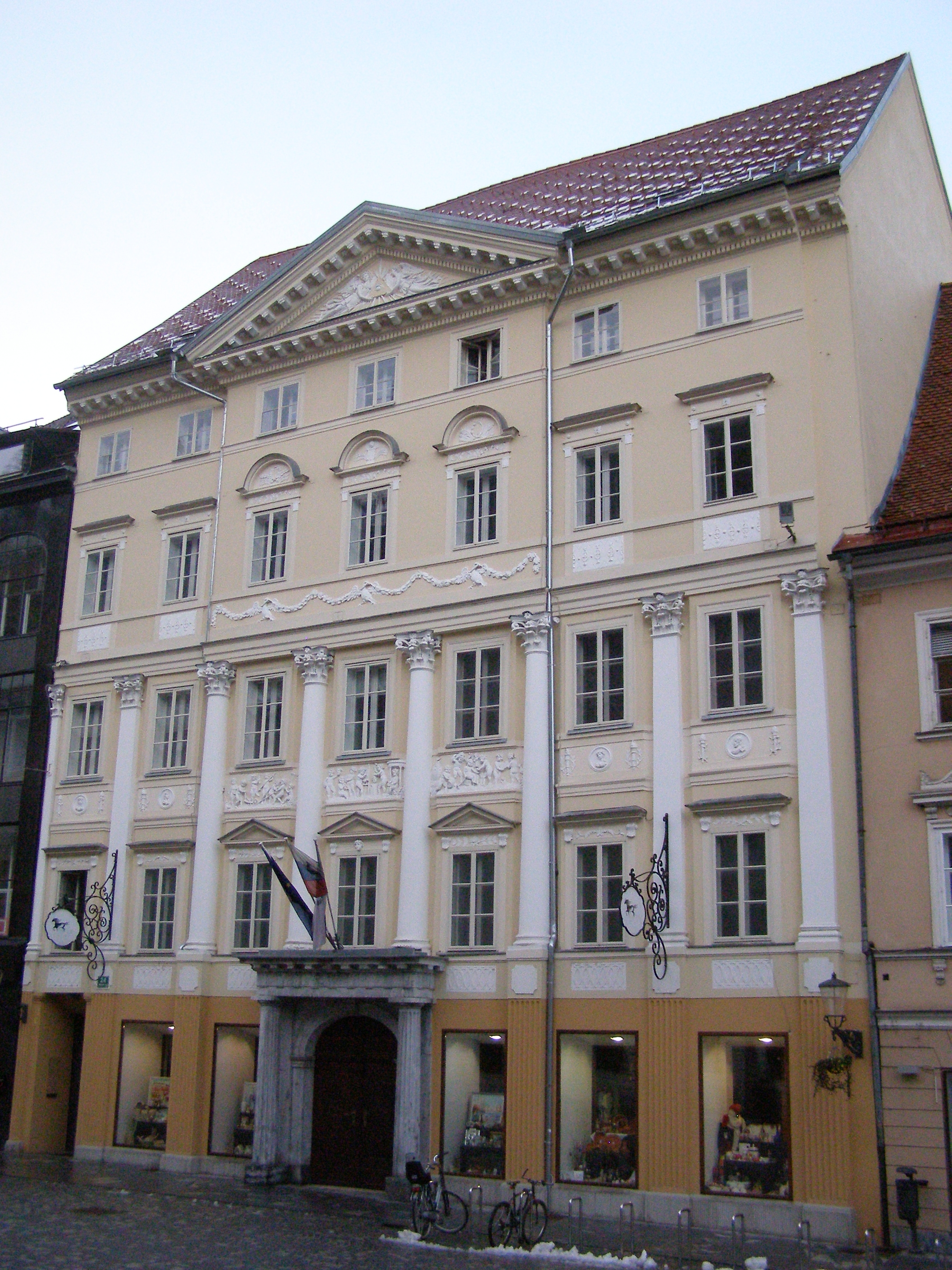 Ljubljana - house in Mestni trg